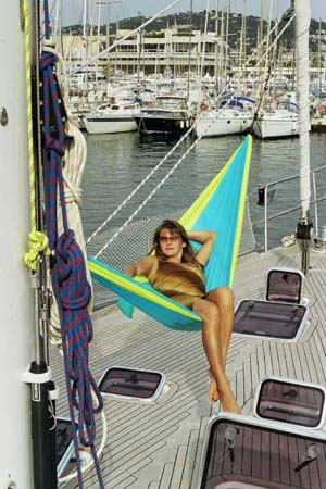 The picture is of a parachute silk hammock on a boat. It was photographed by myself. The picture is about 6 months old. This picture should appear on the page for Hammock.